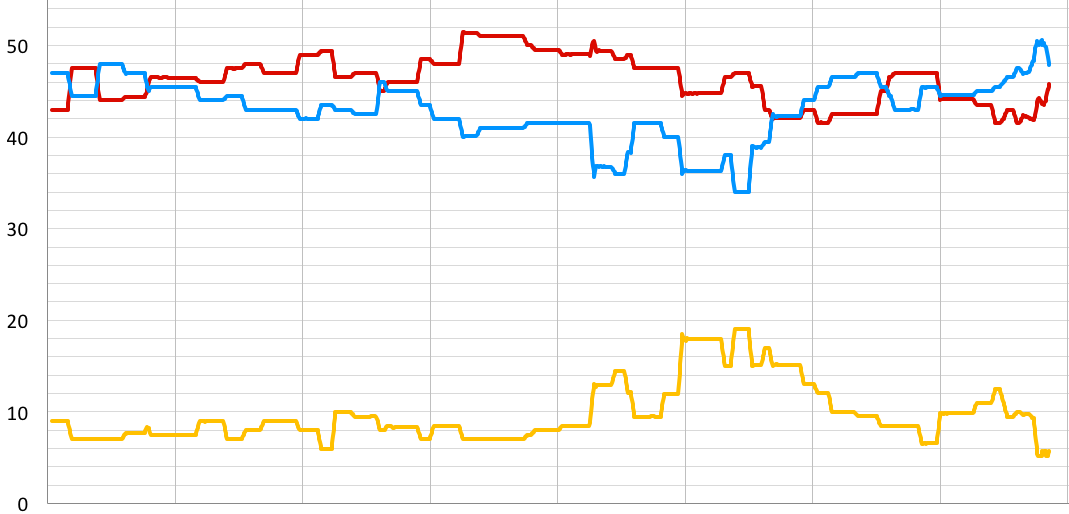 Graphical summary of all UK polls taken for the 1959 UK general election